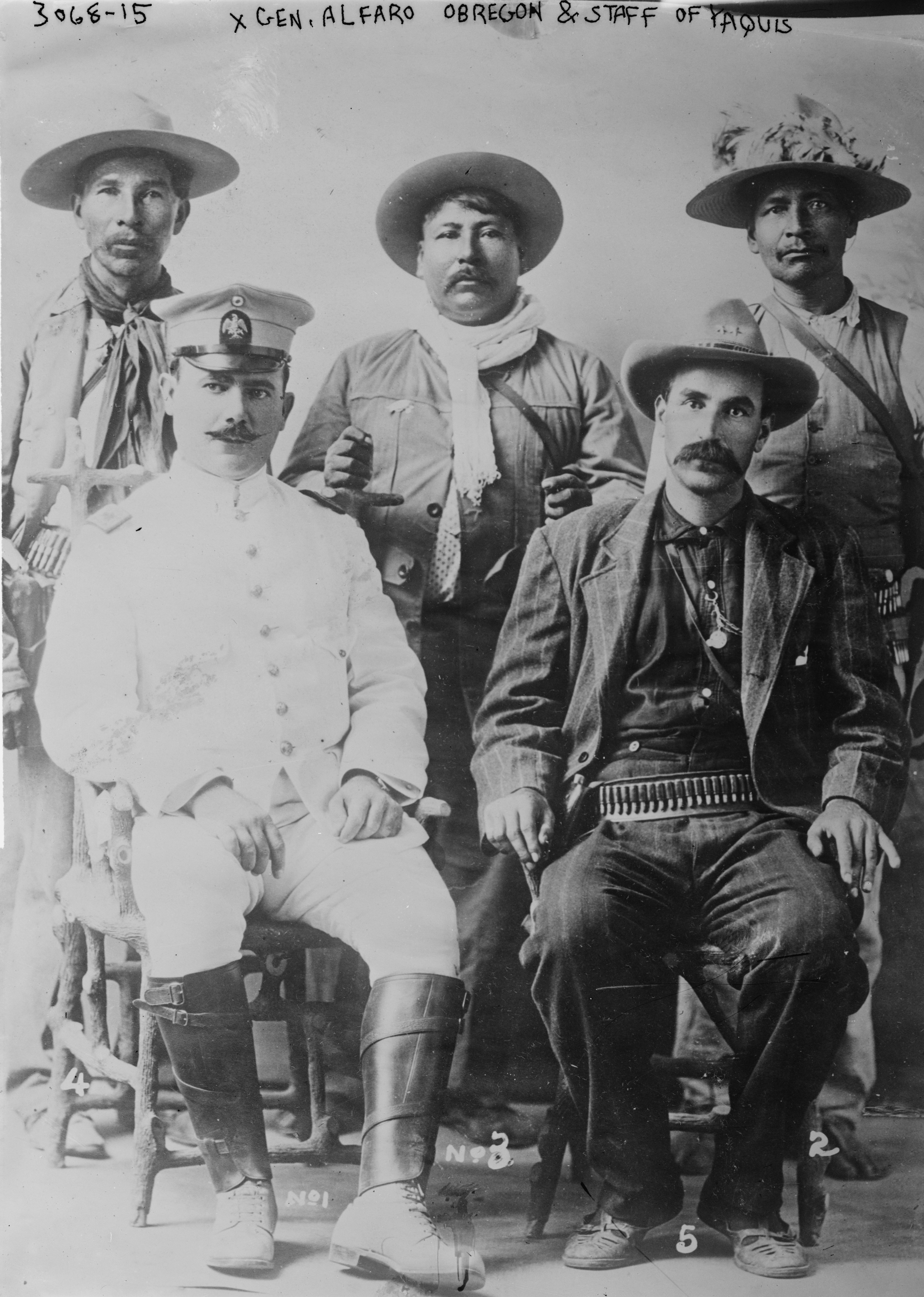 Álvaro Obregón, former Mexican president (white uniform) with his staff of Yaquis.